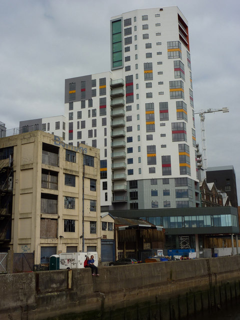 Ipswich waterfront, the old and the new It's worth adding pictures of the rapidly changing developments on the waterfront. The new building has now been unveiled completely. Two people obligingly seated on the high wall for scale.